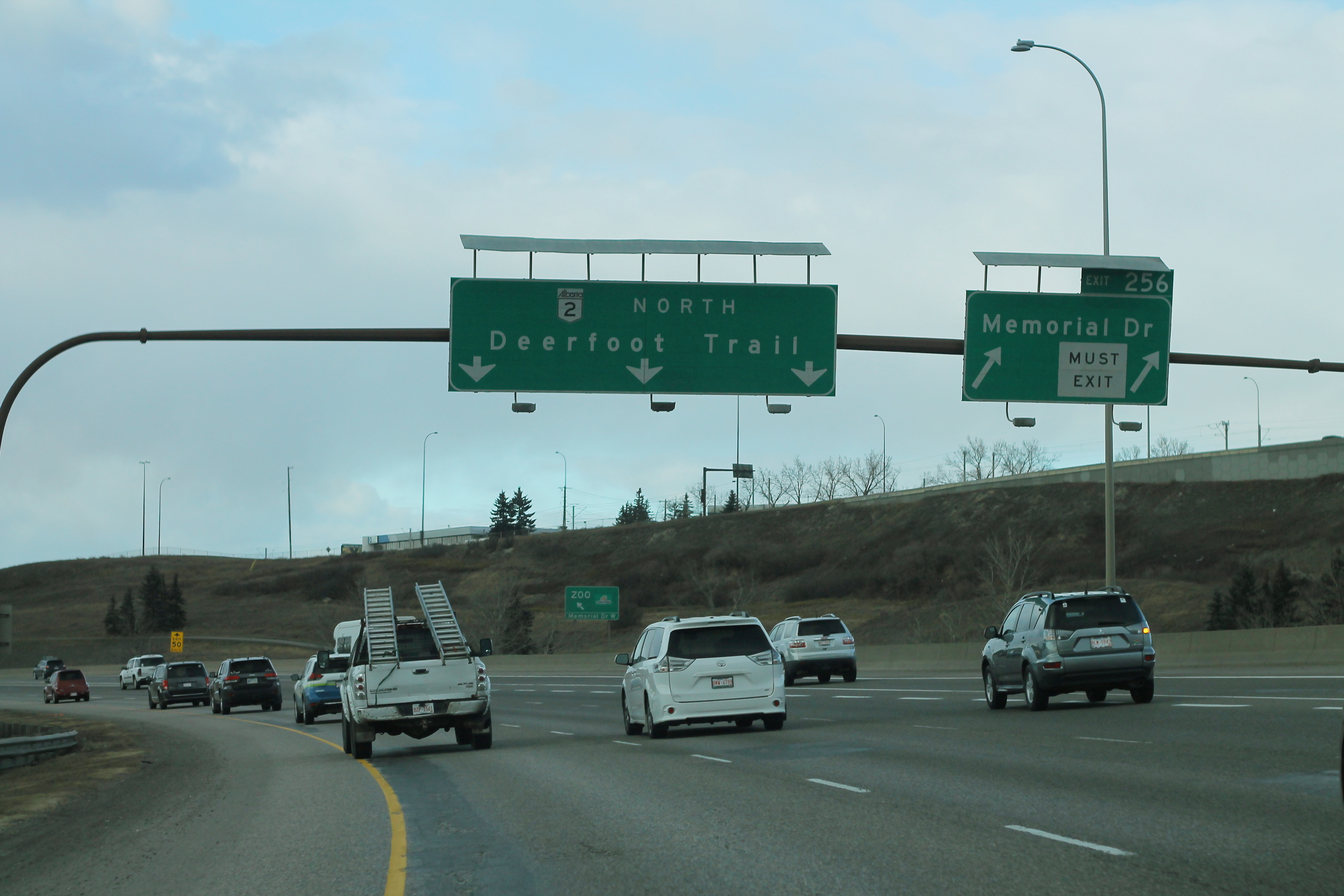 Northbound Deerfoot Trail prior to Memorial Drive in Calgary, Alberta, Canada.